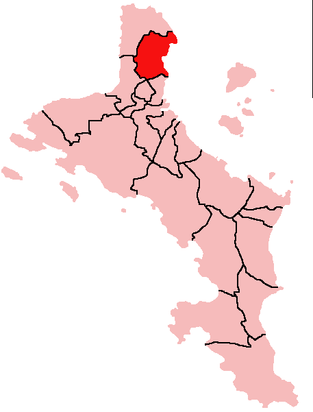 Map of Mahe Island, Seychelles showing Anse Etoile District; created with the GIMP. Made by User:Acntx.